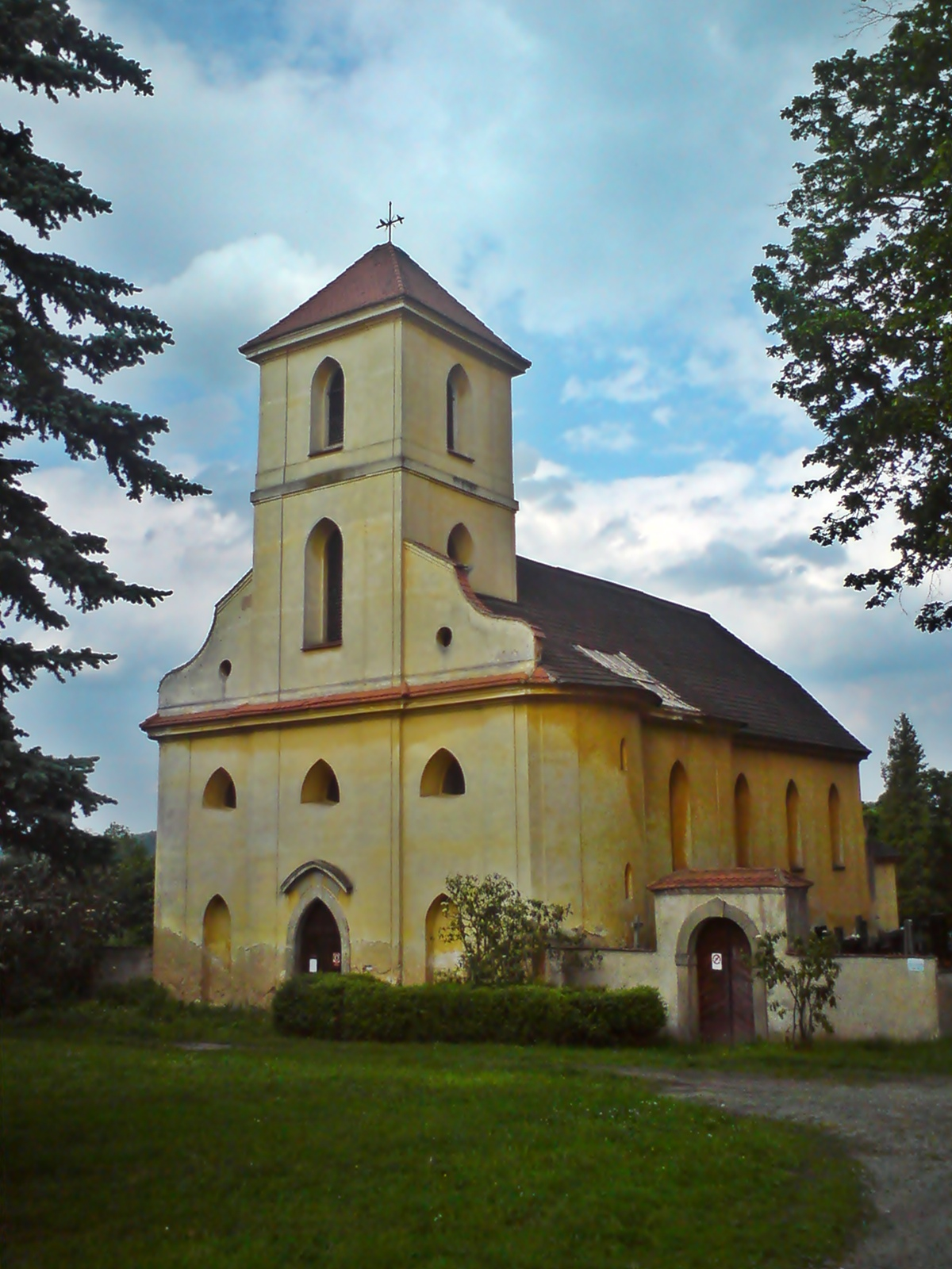 Castel of St George, Kostelec